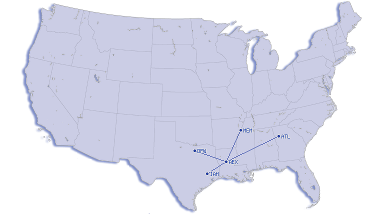 Destinations served from Alexandria International Airport Created using